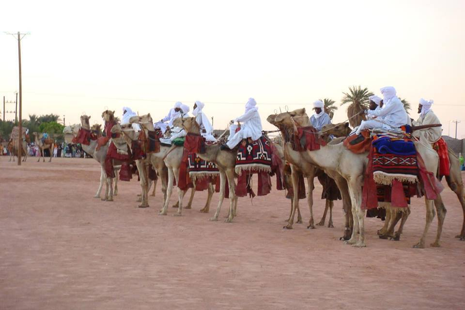 toubou gathering for camel show